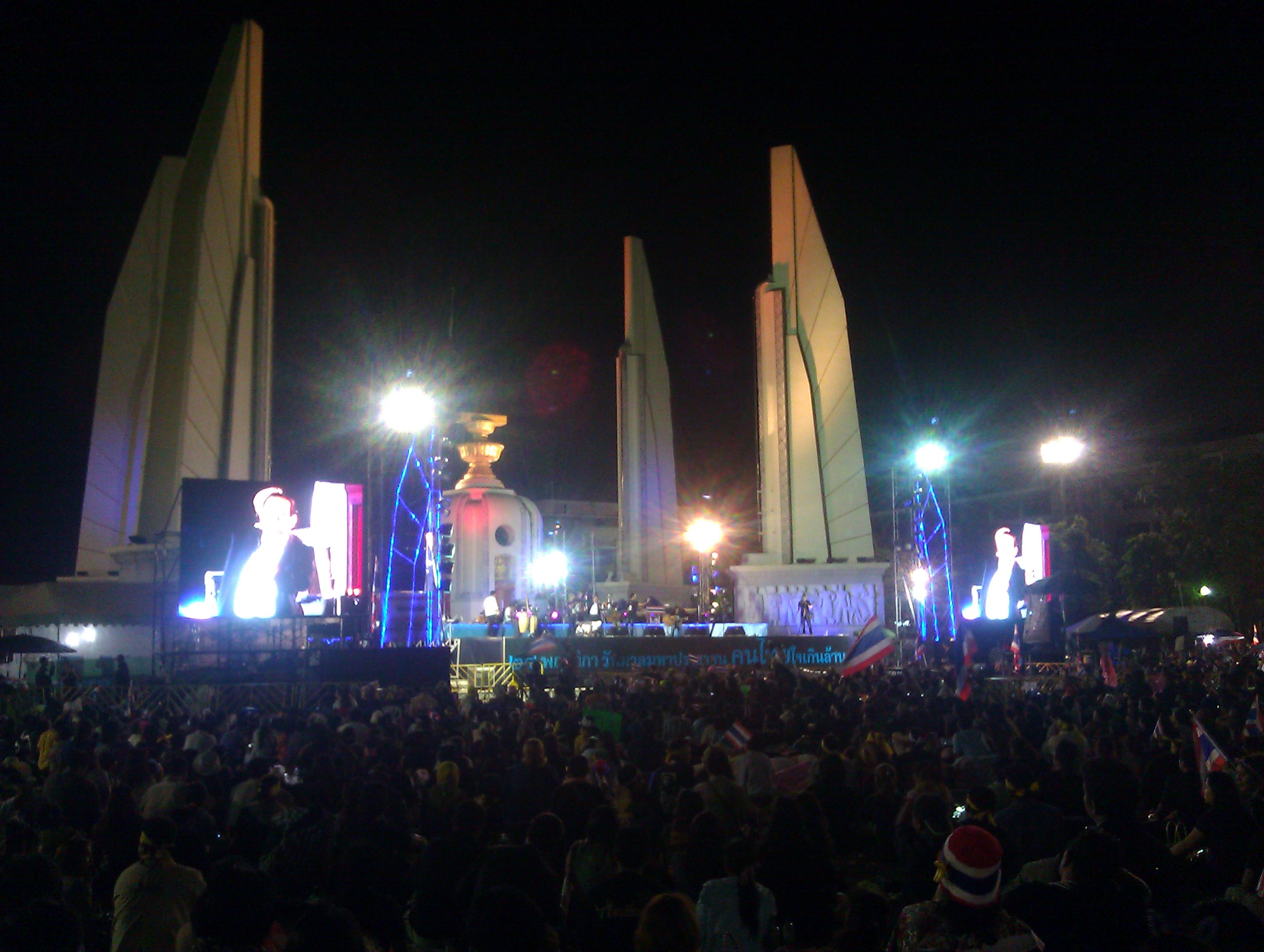 Anti-government protesters gathered at the Democracy Monument in Bangkok on 30 November 2013